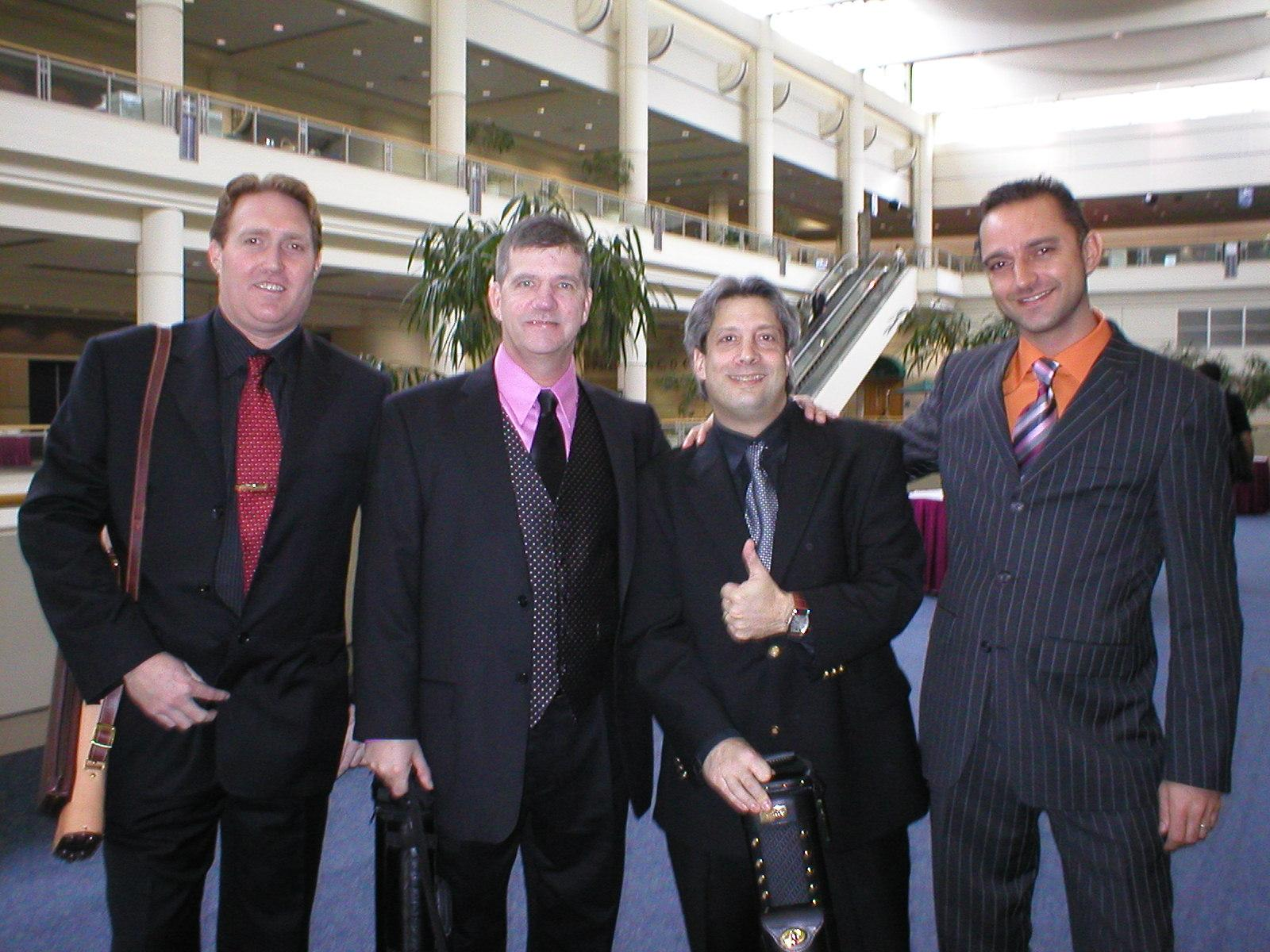 This is my personal photograph that I took with my camera and may be released to the public domain.